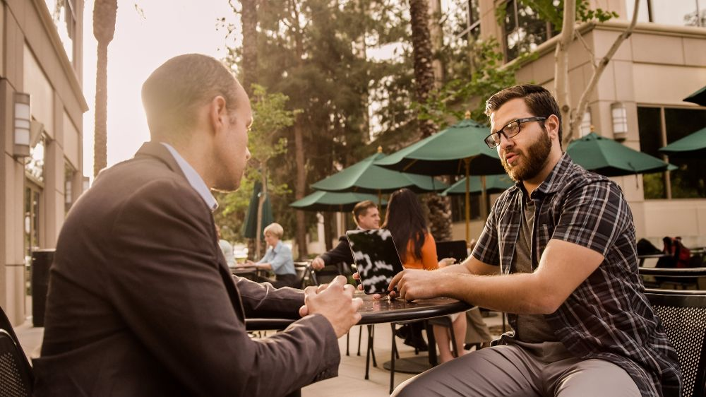 Quest HQ Campus